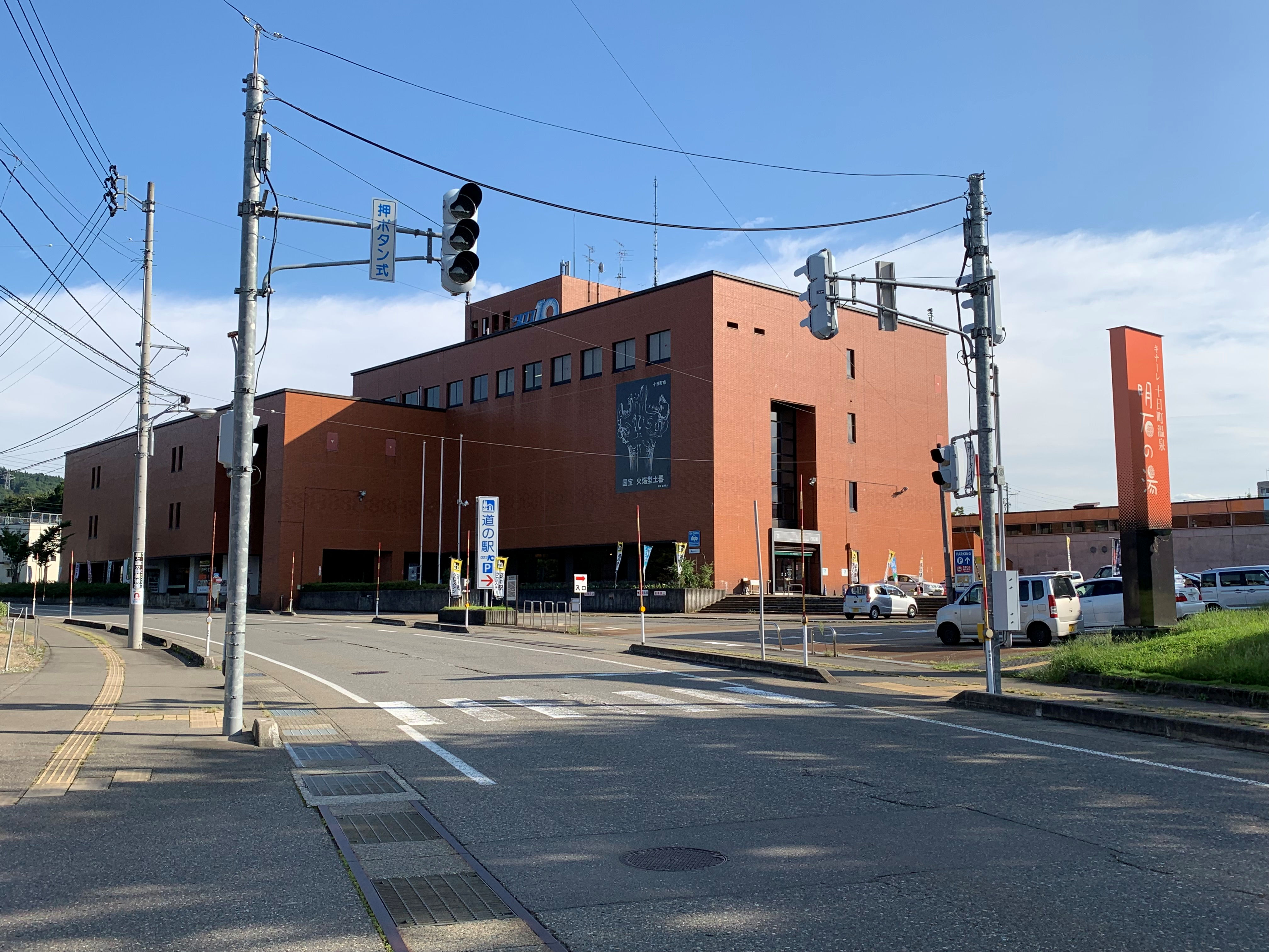 Cross10 Toka-Machi, Michi no Eki (Roadside Station), Niigata, Japan. Took photo in September 2019.